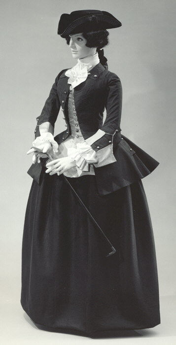 British; Riding Coat